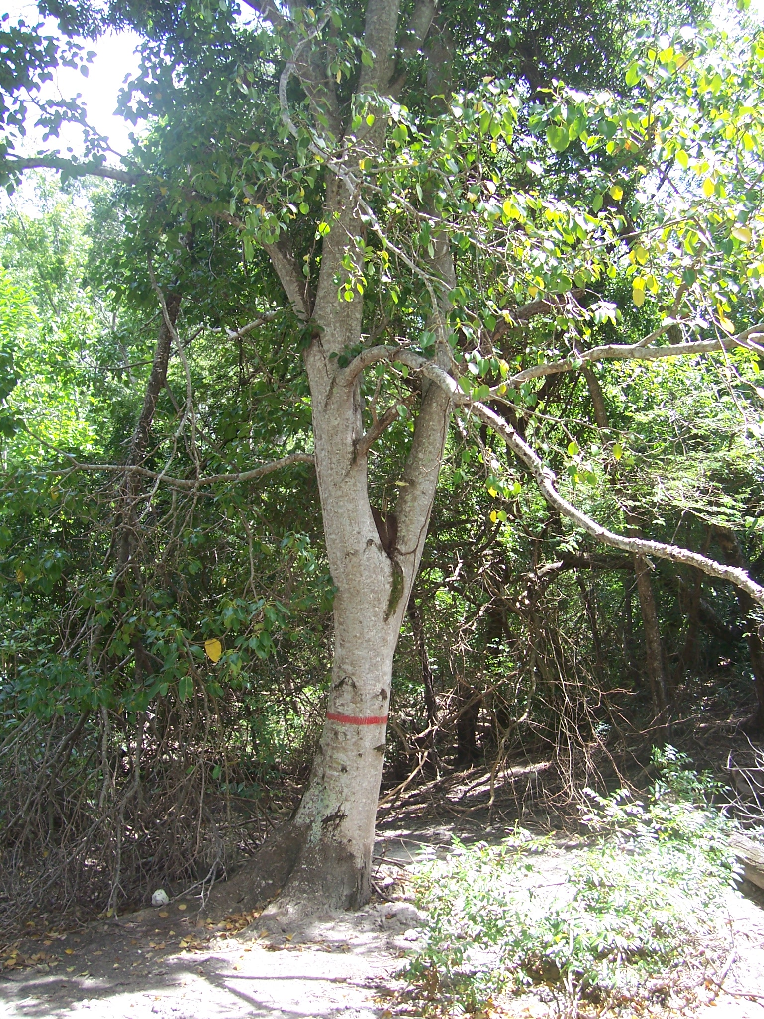 Manchineel tree